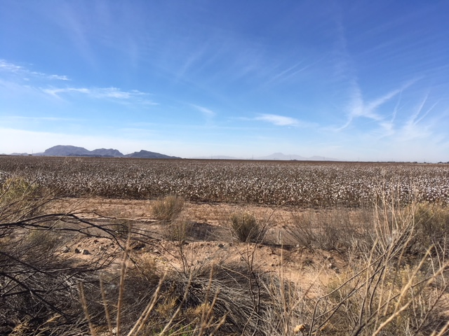 A cotton field near Arizona City.